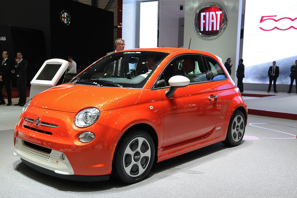 Production Fiat 500e electric car at the Geneva Motor Show 2013 (photos taken on the first press day)